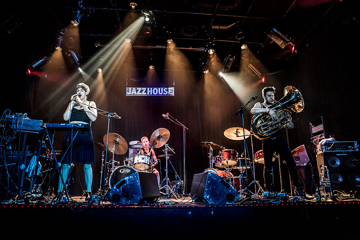 Norwegian band PELbO playing at Copenhagen Jazzhouse June 11, 2013.